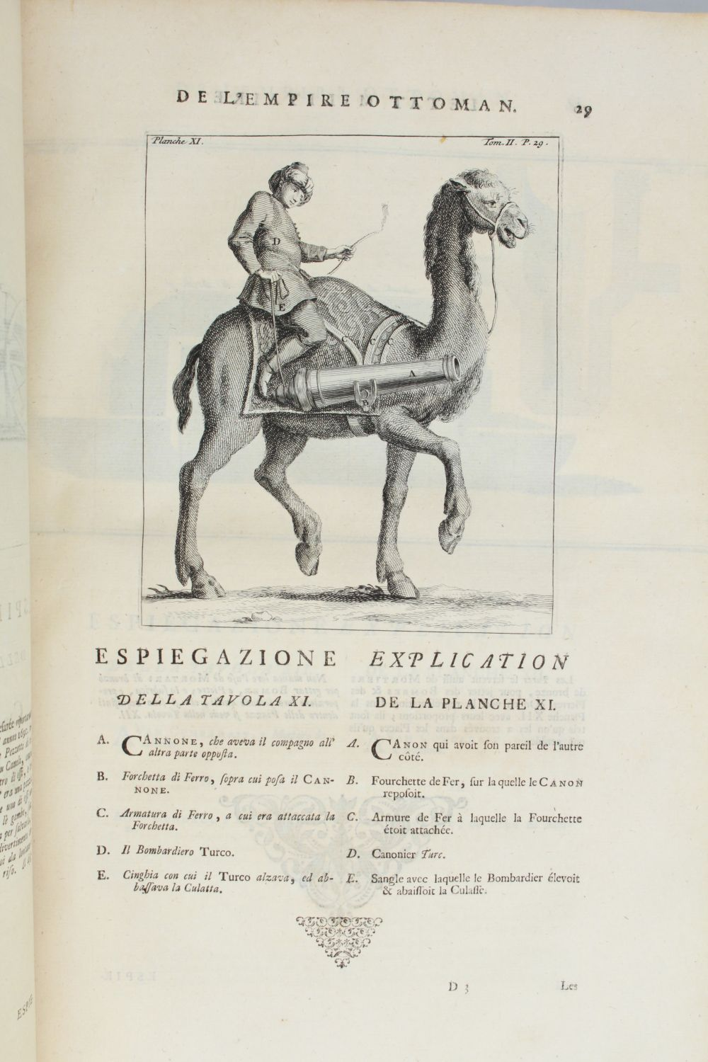 Luigi Ferdinando MARSIGLI Stato militare dell'imperio ottomanno - L'état militaire de l'empire ottoman